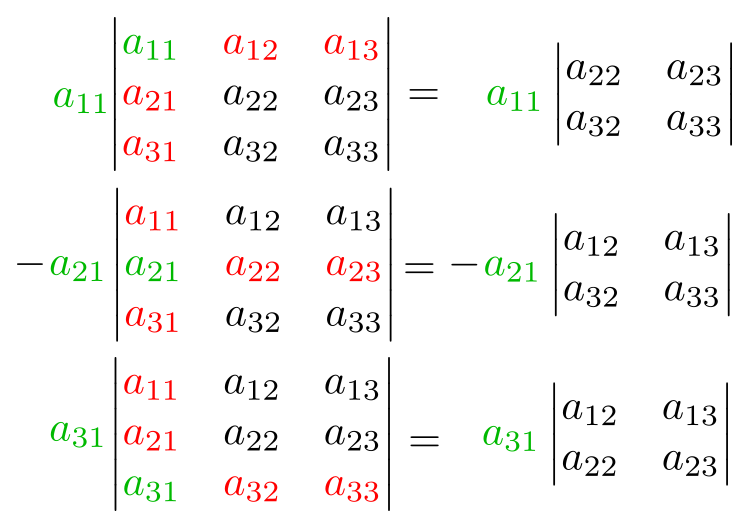 La Place expansion of a matrix colomn